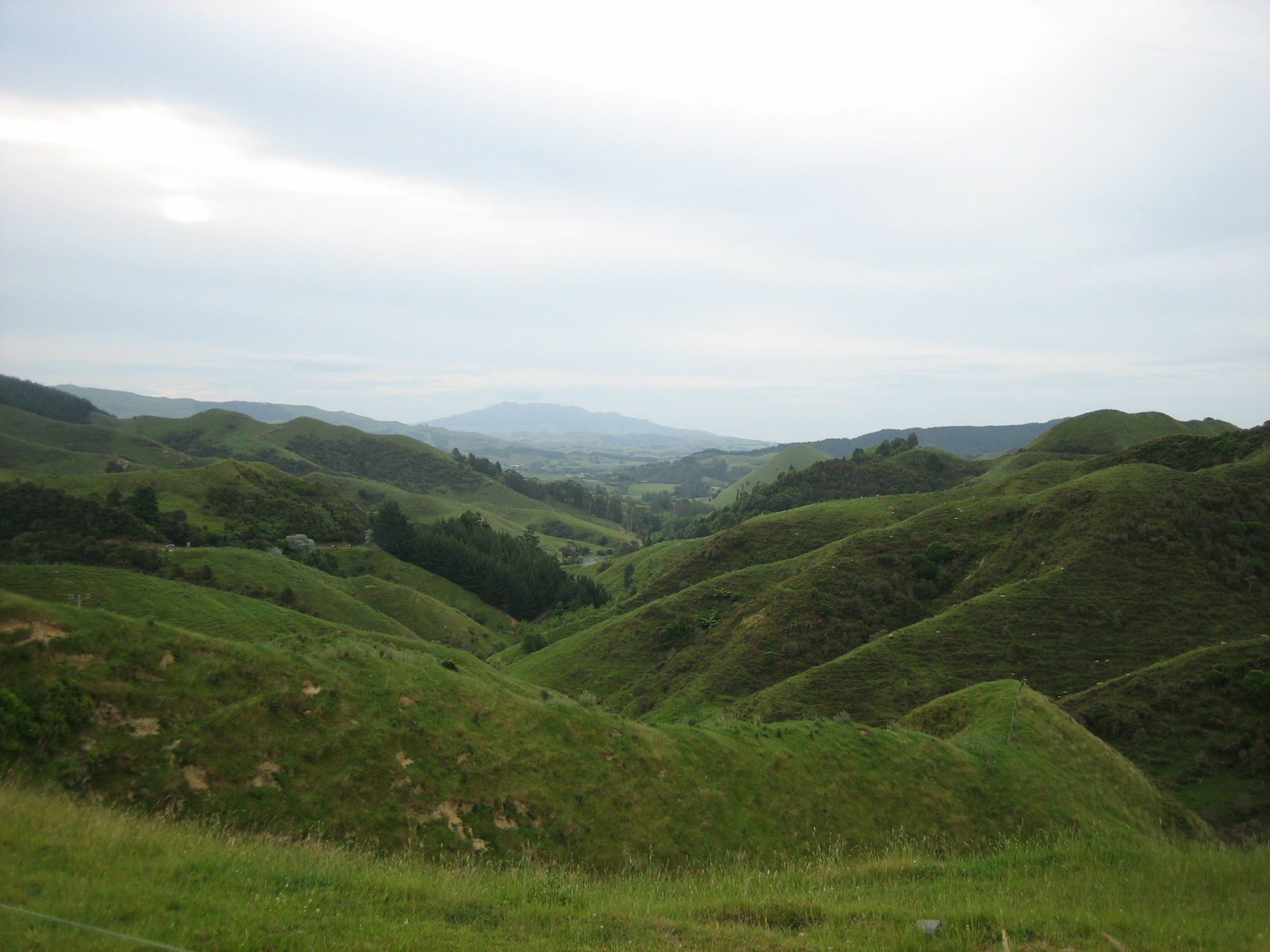 Hills of the Waikato region, New Zealand.